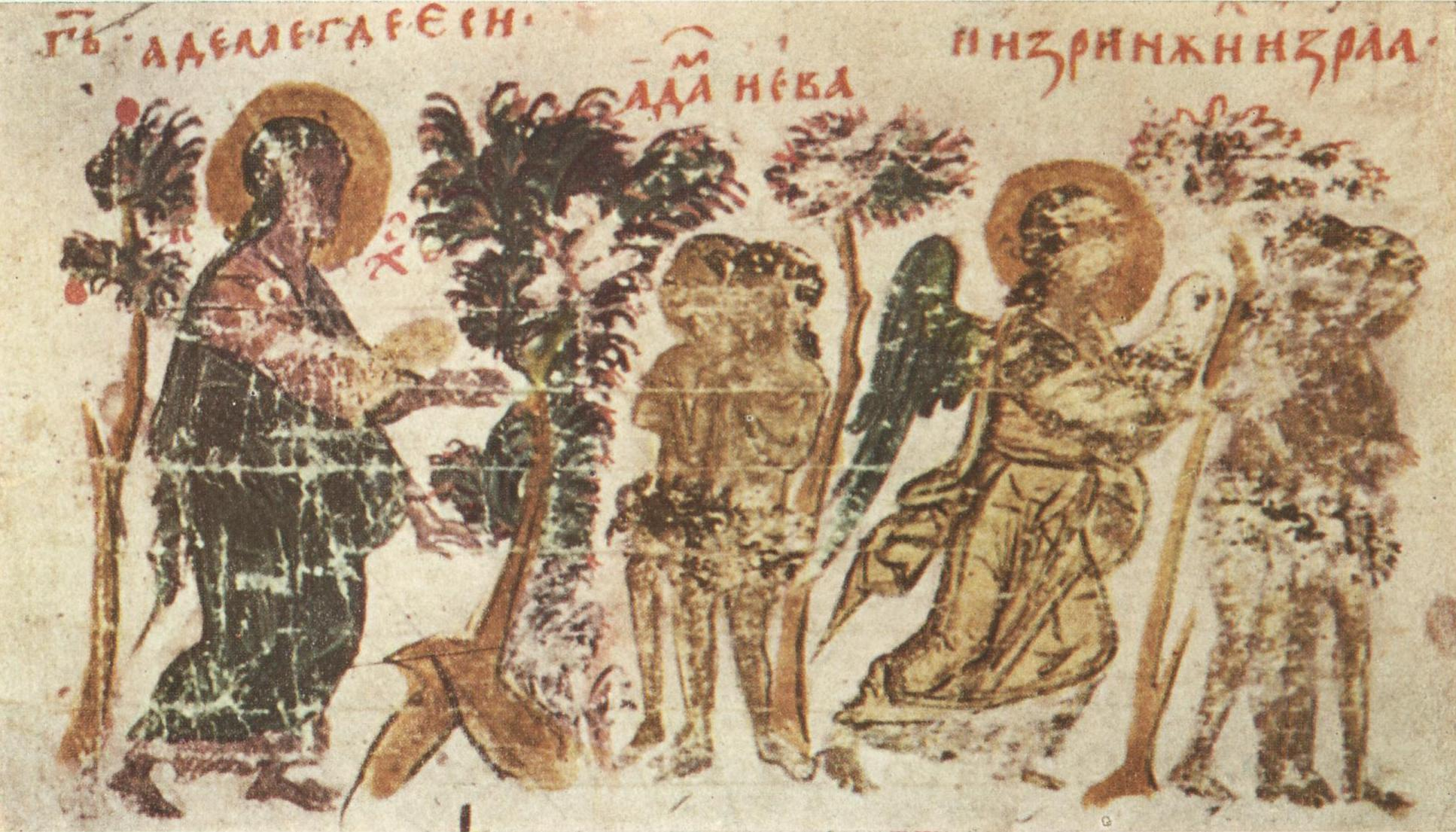 Miniature 6 from the Constantine Manasses Chronicle, 14 century: Adam and Eve get expelled from the Garden of Eden.